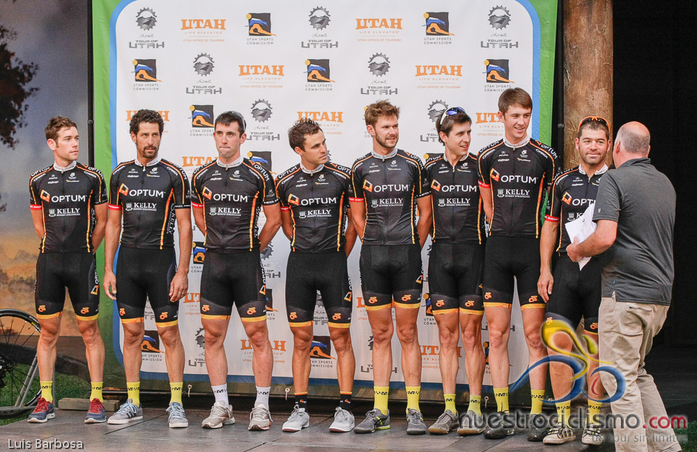 Optum-Kelly Benefit Strategies Cycling Team, at the presentation of the Tour of Utah 2013